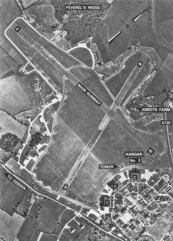 Aerial photograph of Debden Airfield, England.